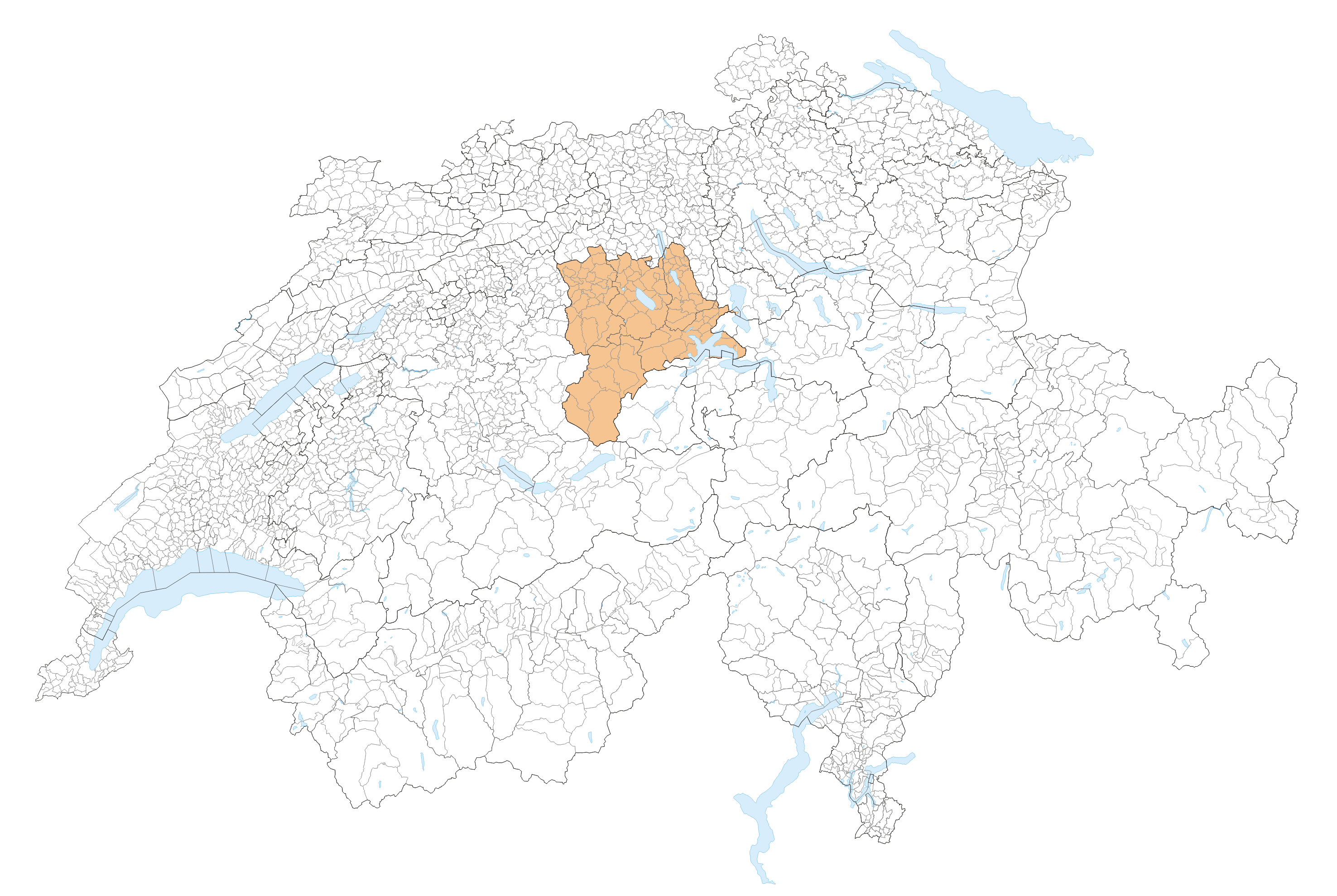 Kanton Luzern